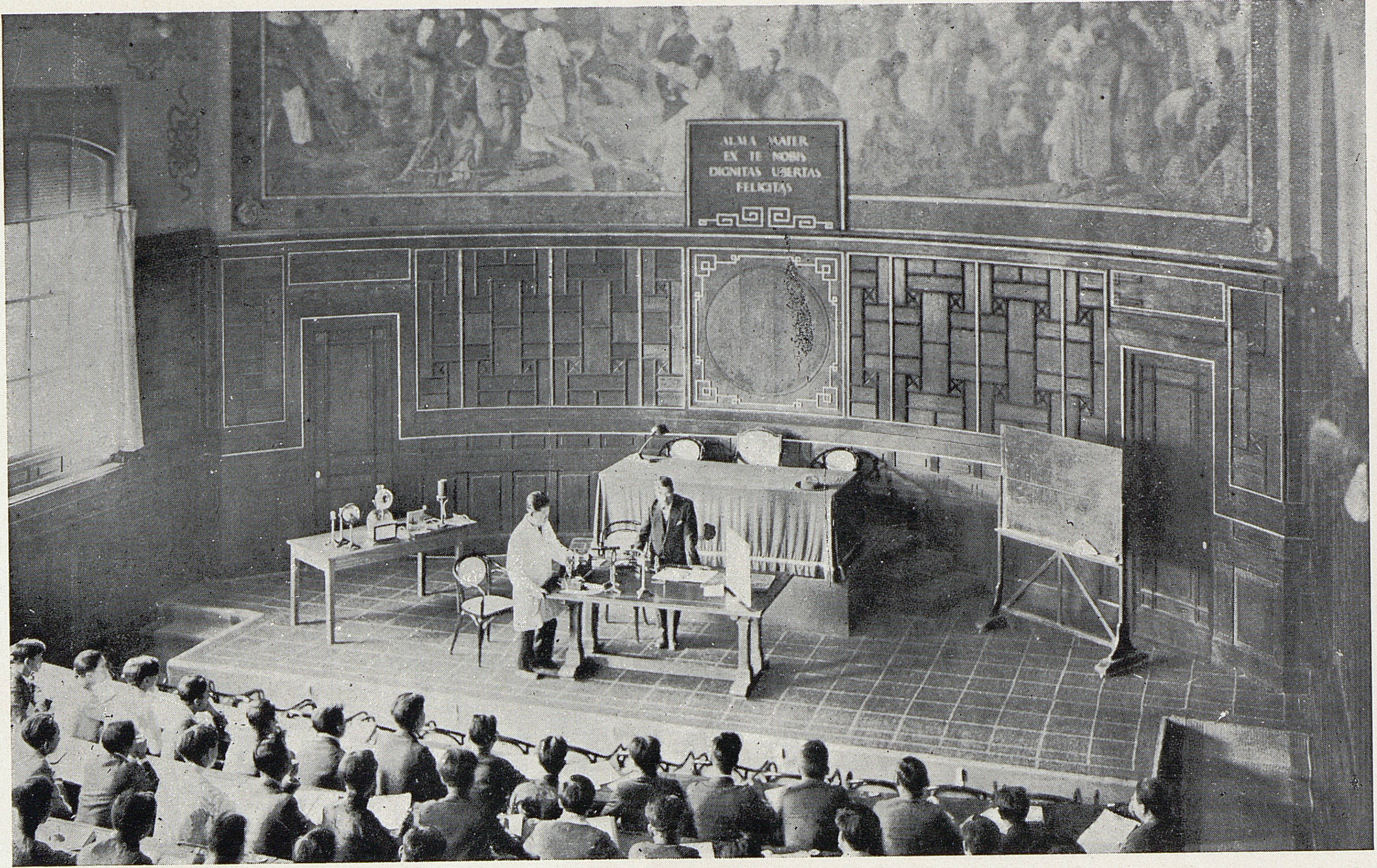 A physics lesson at the amphitheatre of University of Hanoi, sometime between 1929 and 1931. Published in 1933 by Direction Générale de l'Instruction Publique of Gouvernement général de l’Indochine (Government of Indochina - which ceased to exist from 1954). The picture can be found from another work by Direction Générale de l'Instruction Publique of Gouvernement général de l’Indochine, published in the book École de plein exercice de médecine et de pharmacie de l'Indochine, page 20-21, for Paris Colonial Exposition in 1931. Copies of this book can be found at several places, such as Université Côte d'Azur. BU Lettres Arts Sciences Humaines. Fonds ASEMI, or at / Bibliothèque nationale de France.